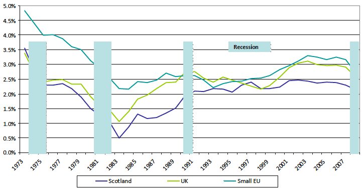 This image shows the recession during the years of 1900